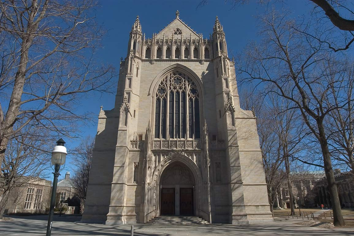 Front, Princeton University Chapel